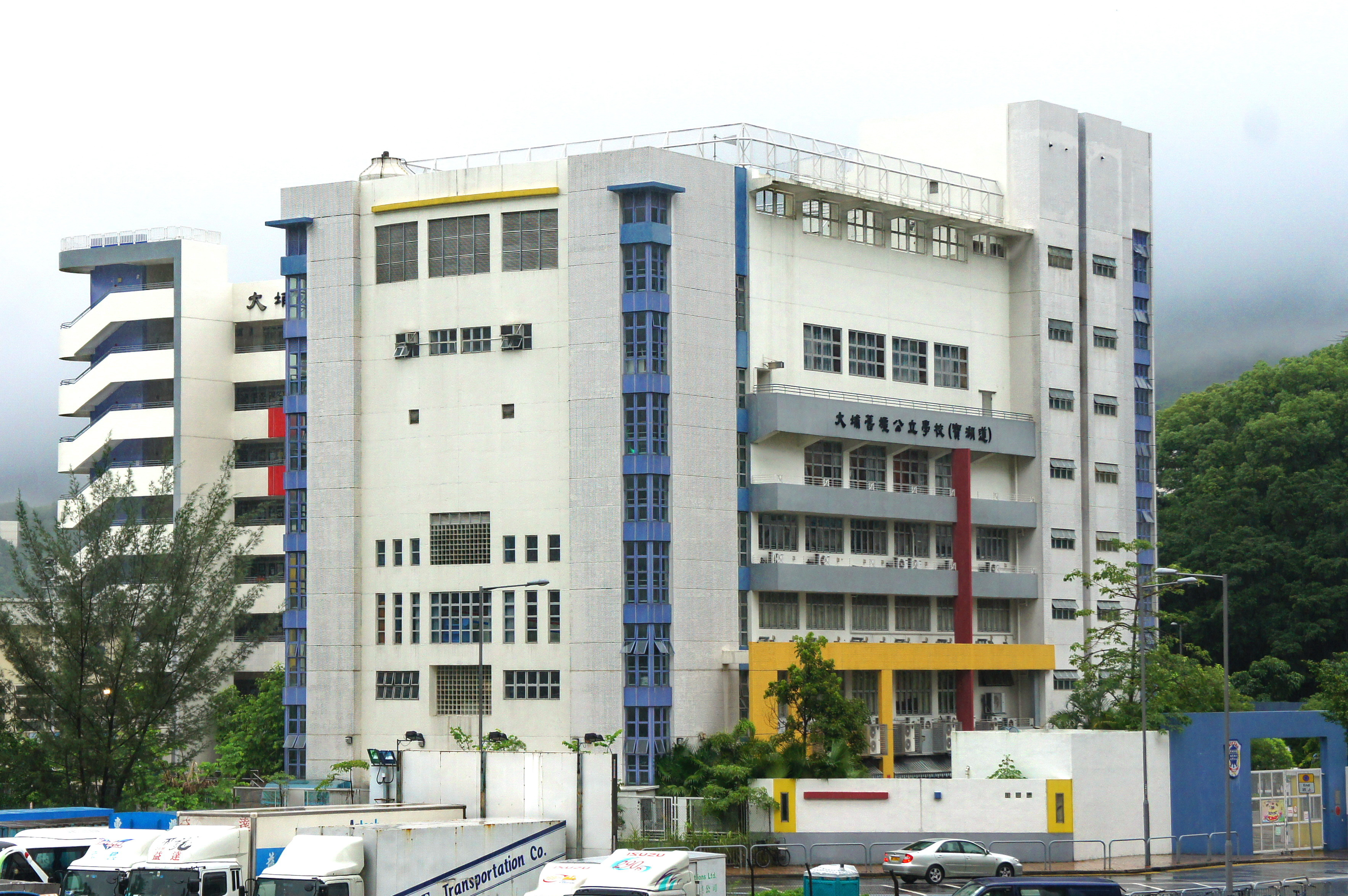 Tai Po Old Market Public School (Plover Cove), New Territories, Hong Kong.